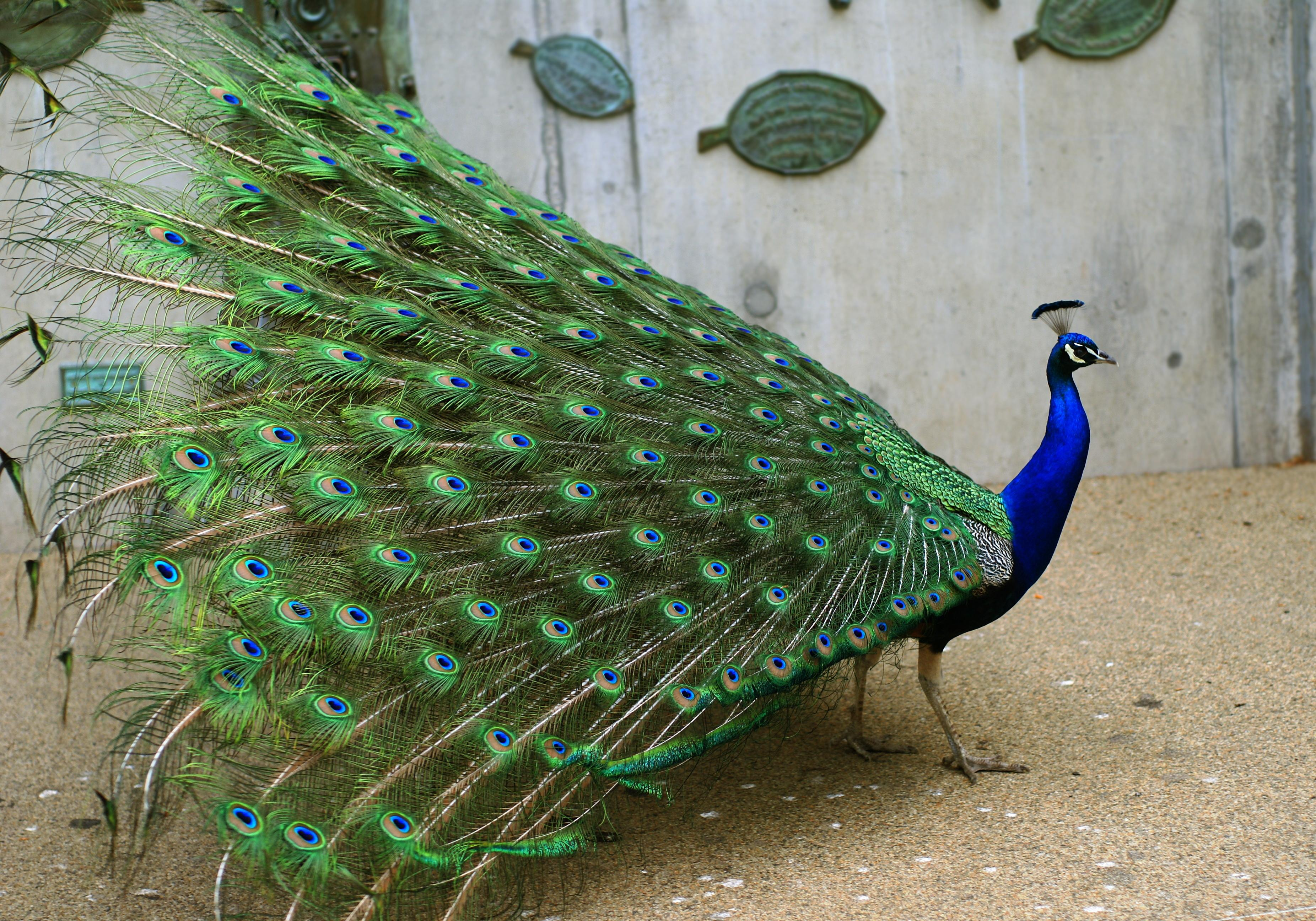 Indian Peafowl also known as the Common Peafowl or the Blue Peafowl.